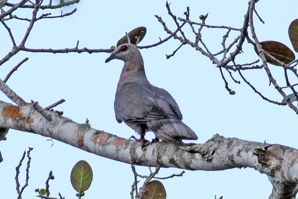 A Ring-tailed Pigeon in Cockpit Country, Jamaica.